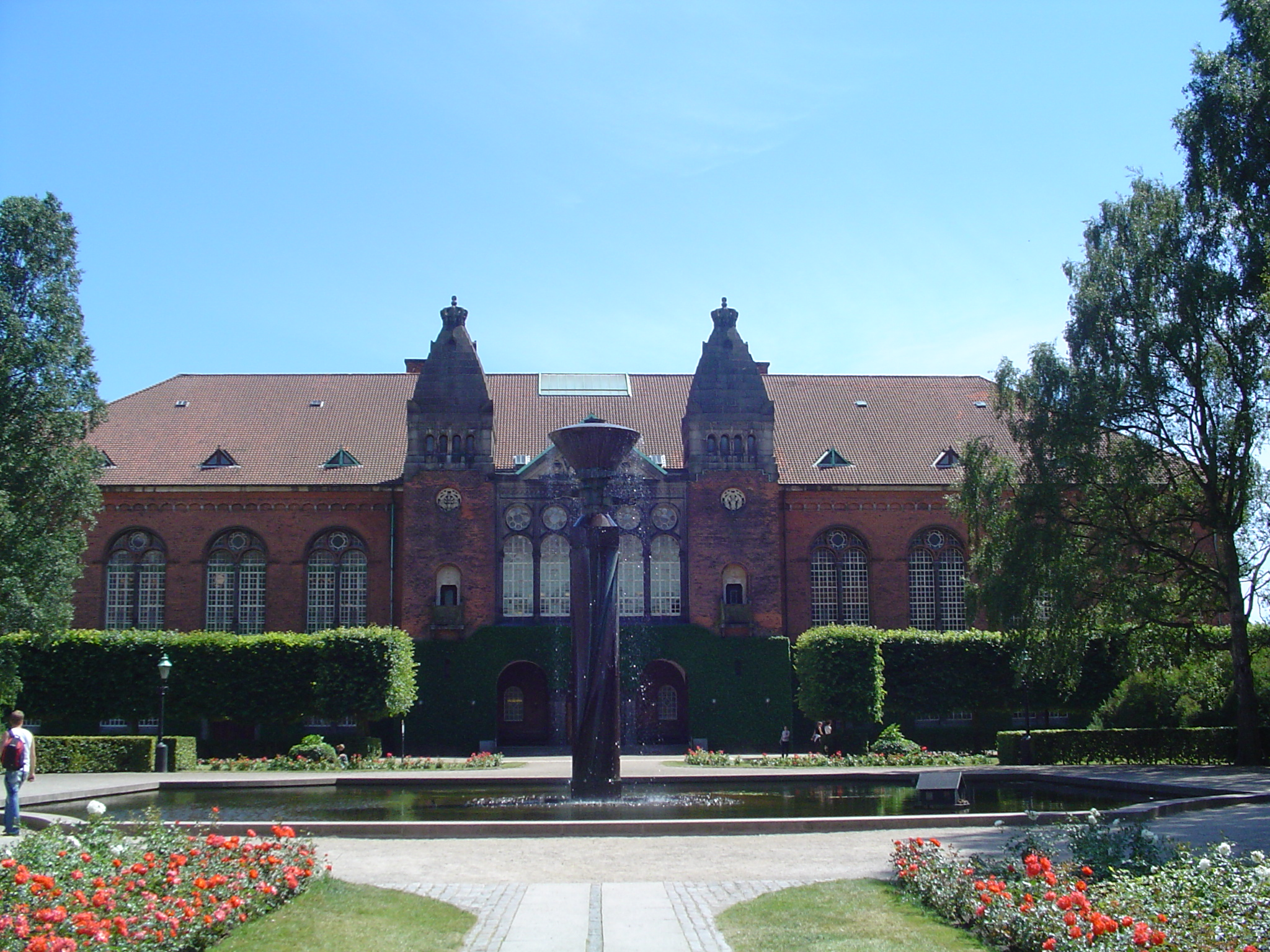 The old building of the Danish Royal Library on Slotsholmen in Copenhagen, viewed from the North-West. Taken by user:Thue in the sommer of 2005.